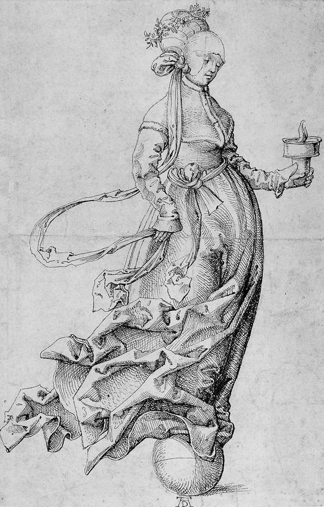 The signature of Dürer at the bottom is contemporary but fake.